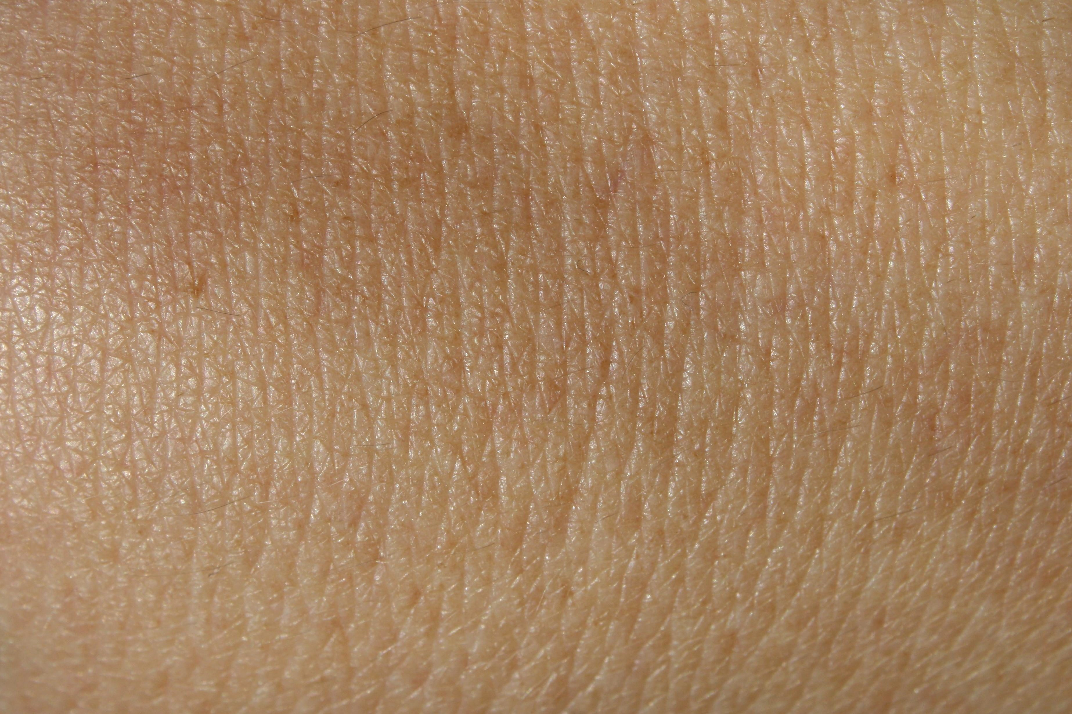 image skin texture